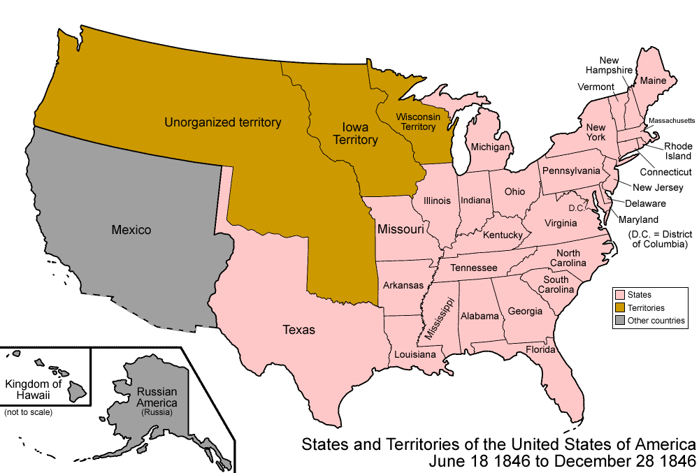 Map of the states and territories of the United States as it was from June 1846 to December 1846. On June 18 1846, Oregon Country below the 49th parallel, excluding Vancouver Island, was incorporated in to the United States as unorganized territory. On December 28 1846, a portion of Iowa Territory was admitted as the state of Iowa; the remainder became unorganized.